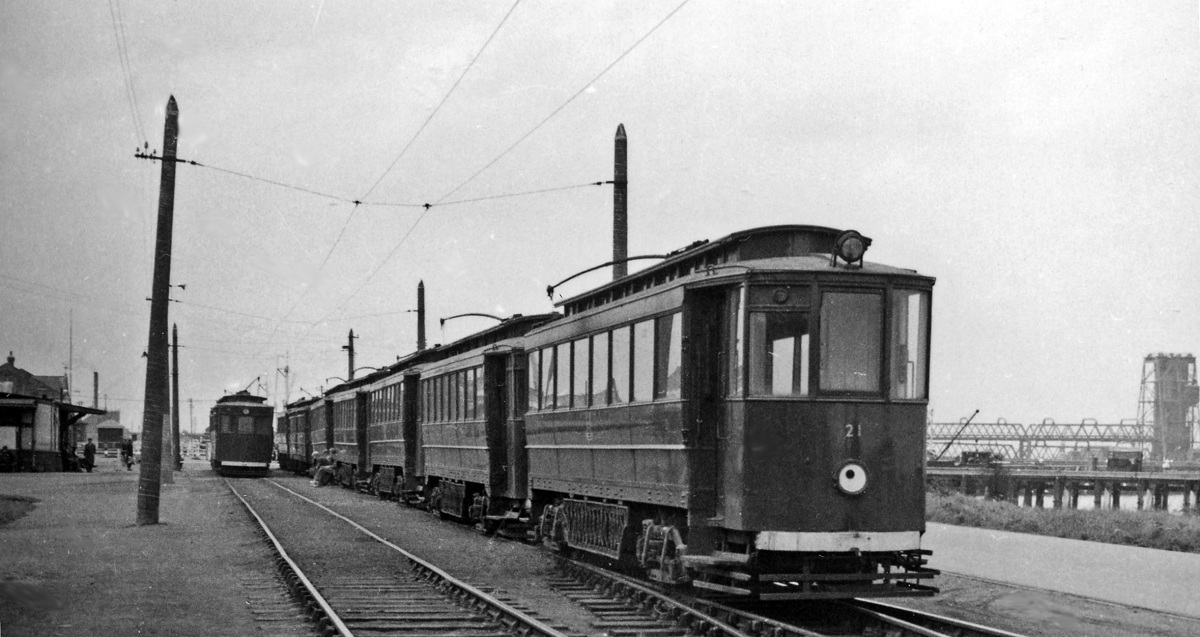 Grimsby & Immingham Electric Tramway vehicles at Immimgham Dock. View NW, at their terminus from Grimsby. [Precise location uncertain]. The tramcars were ex-Gateshead & District Tramway Co. The tramway closed on 1/7/61.